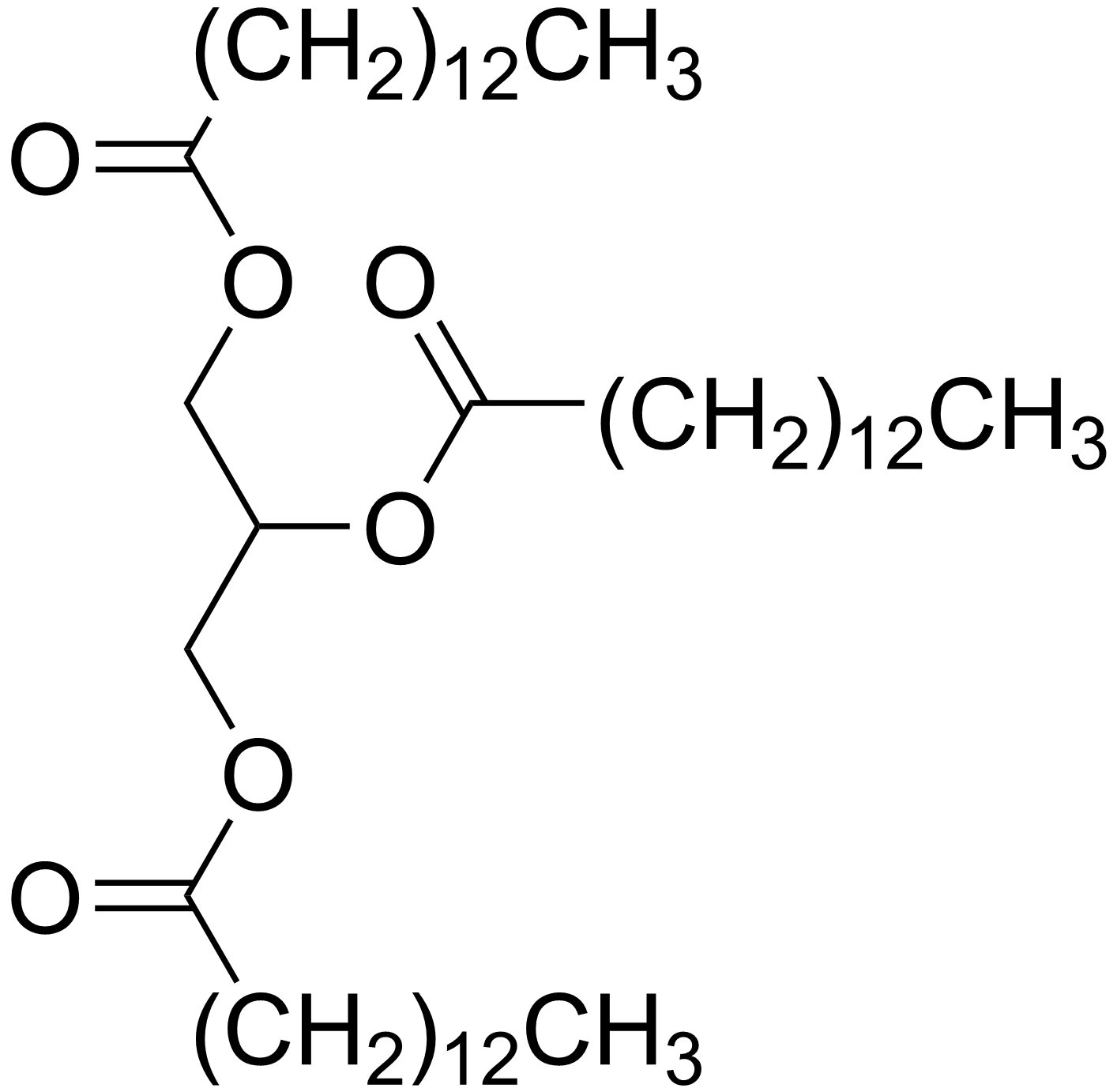 Chemical structure of trimyristin created with ChemDraw.